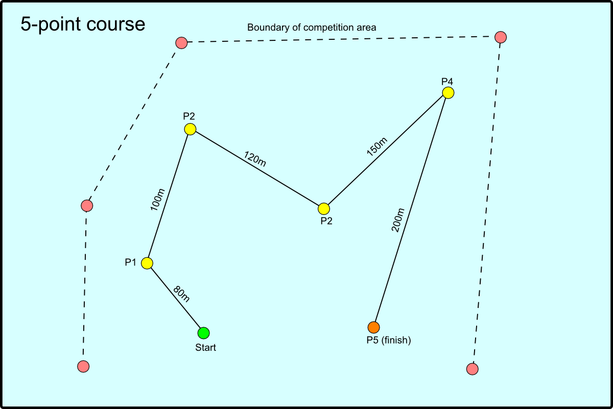 Underwater orienteering 5-point course